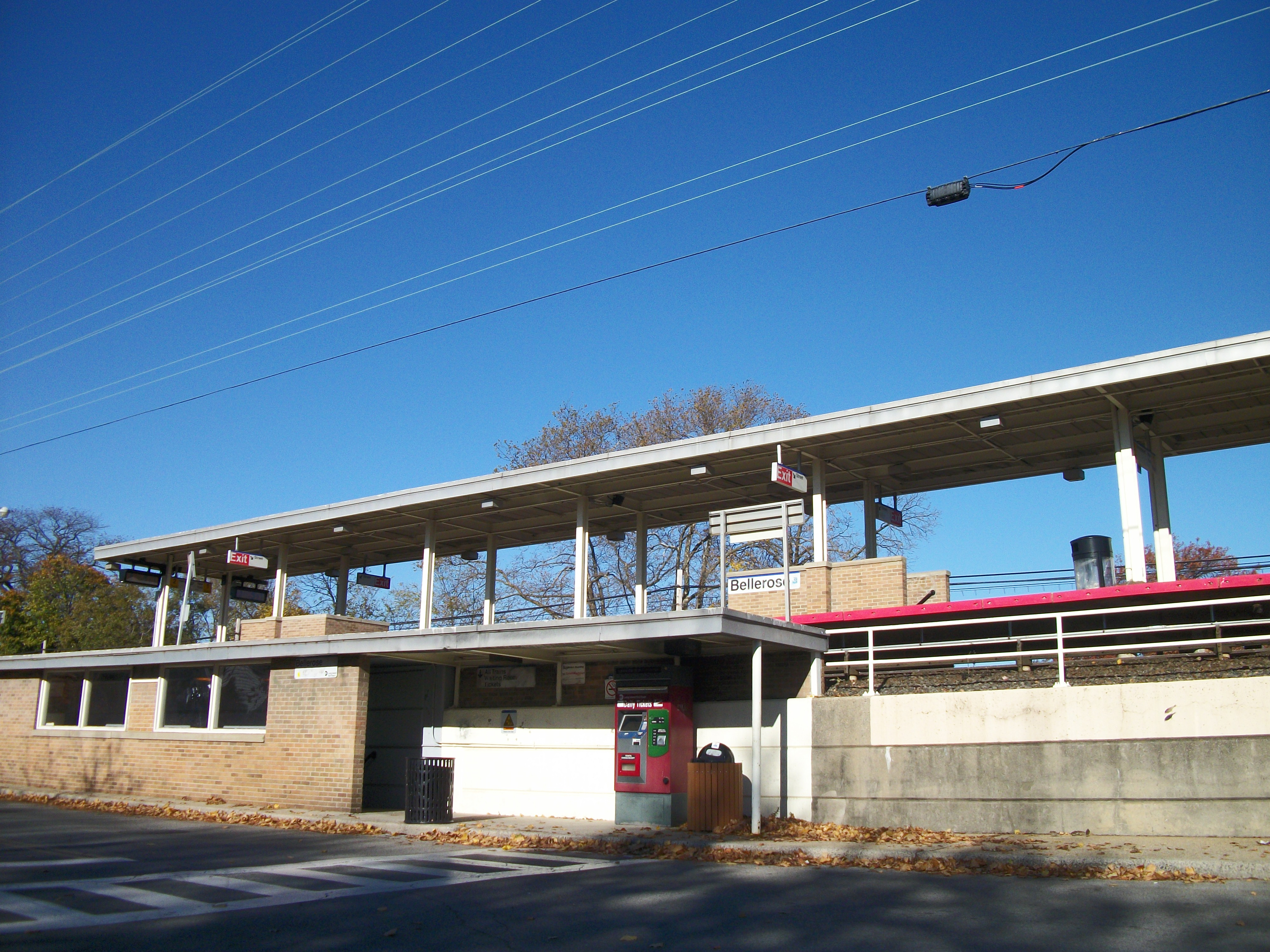 Bellerose LIRR Station from the south side of the tracks, along Atlantic Avenue across from the intersection with Walnut Avenue. The tunnel leads both to the station itself which only serves Hempstead Branch trains, and to the north side of the tracks, where the rest of the Main Line passes over.